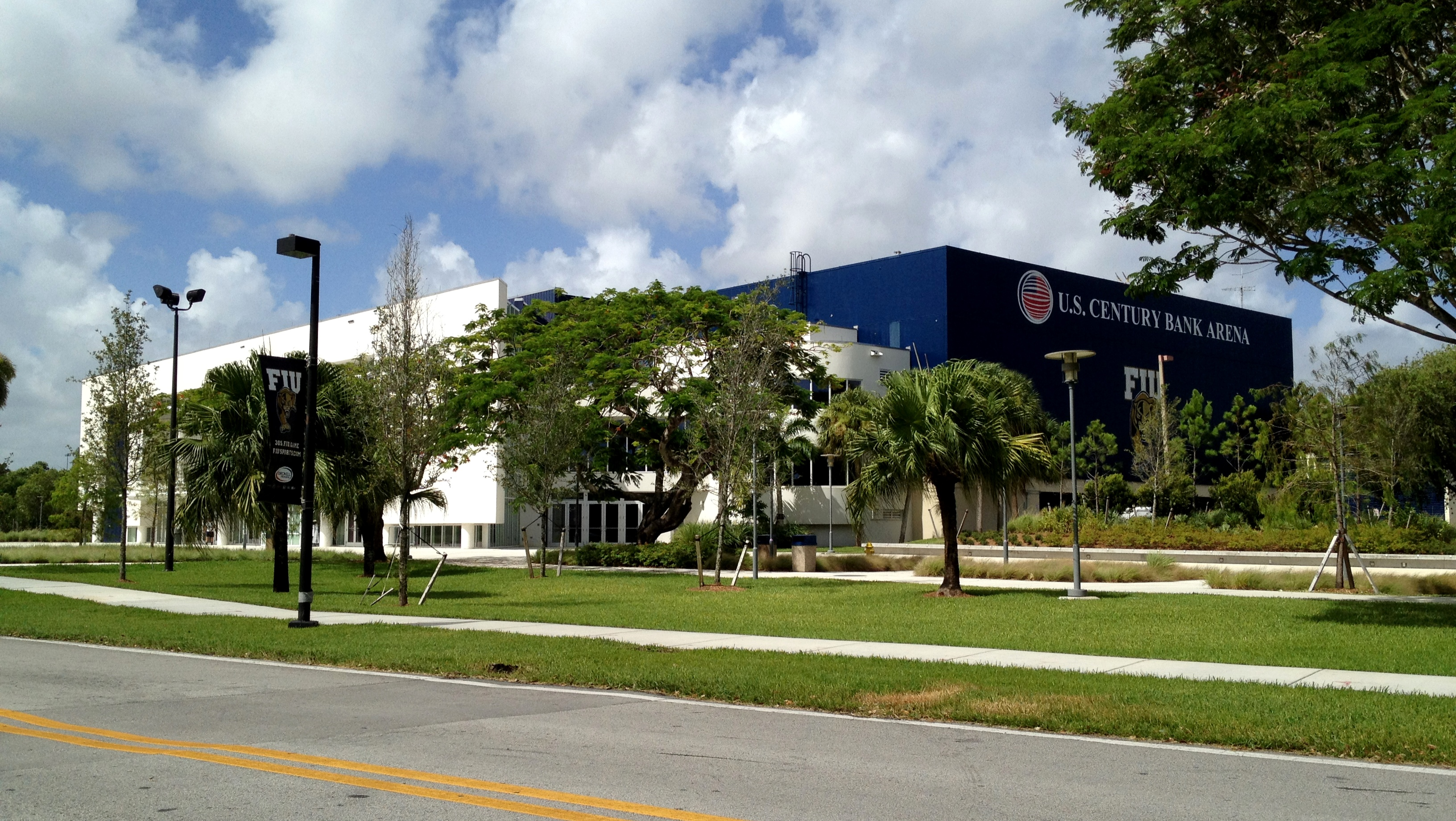 U.S. Century Bank Arena (previously FIU Arena and Pharmed Arena), University Park (Greater Miami), Florida, USA.